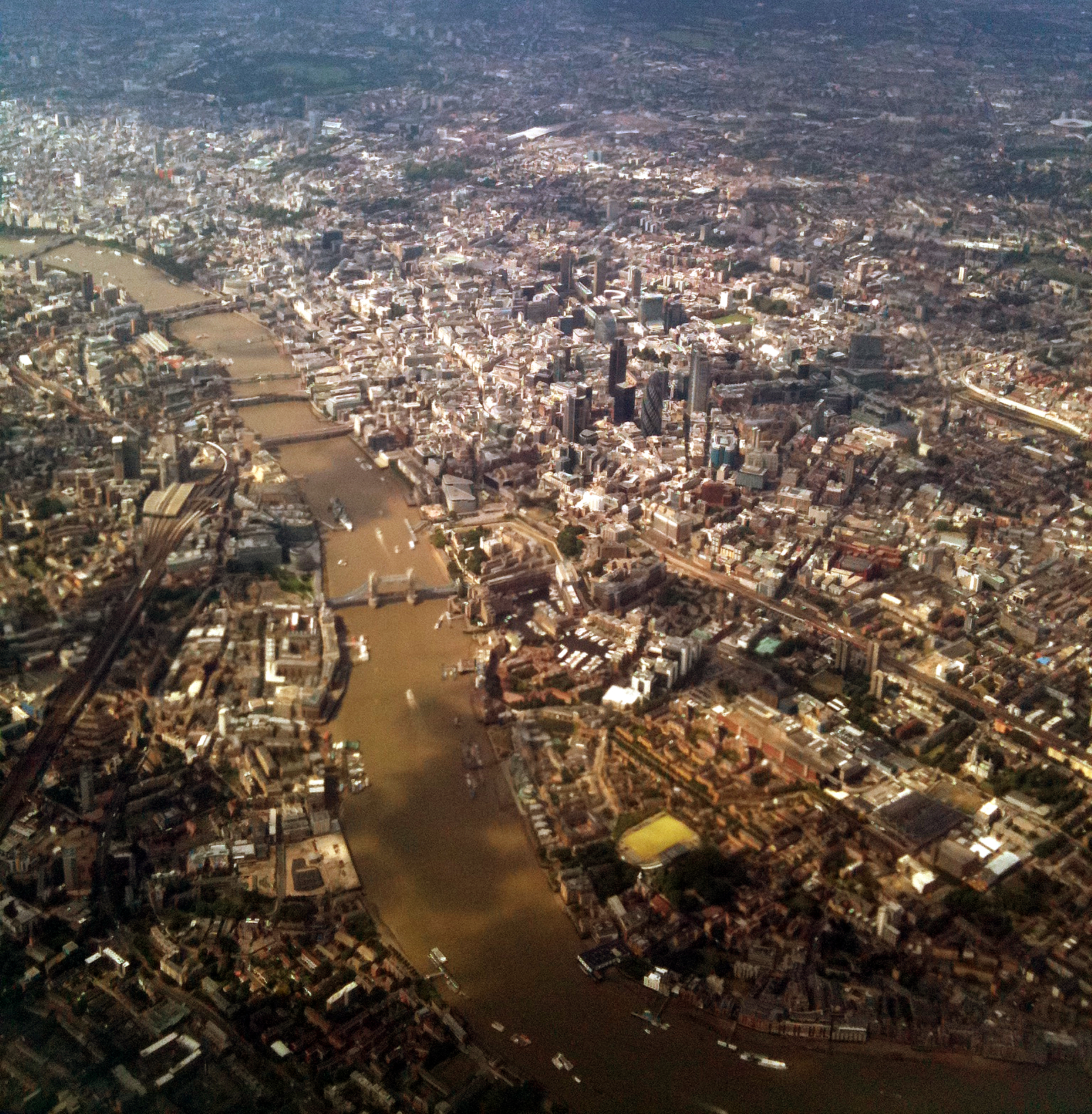 View of London and River Thames during flight from Baku to London.